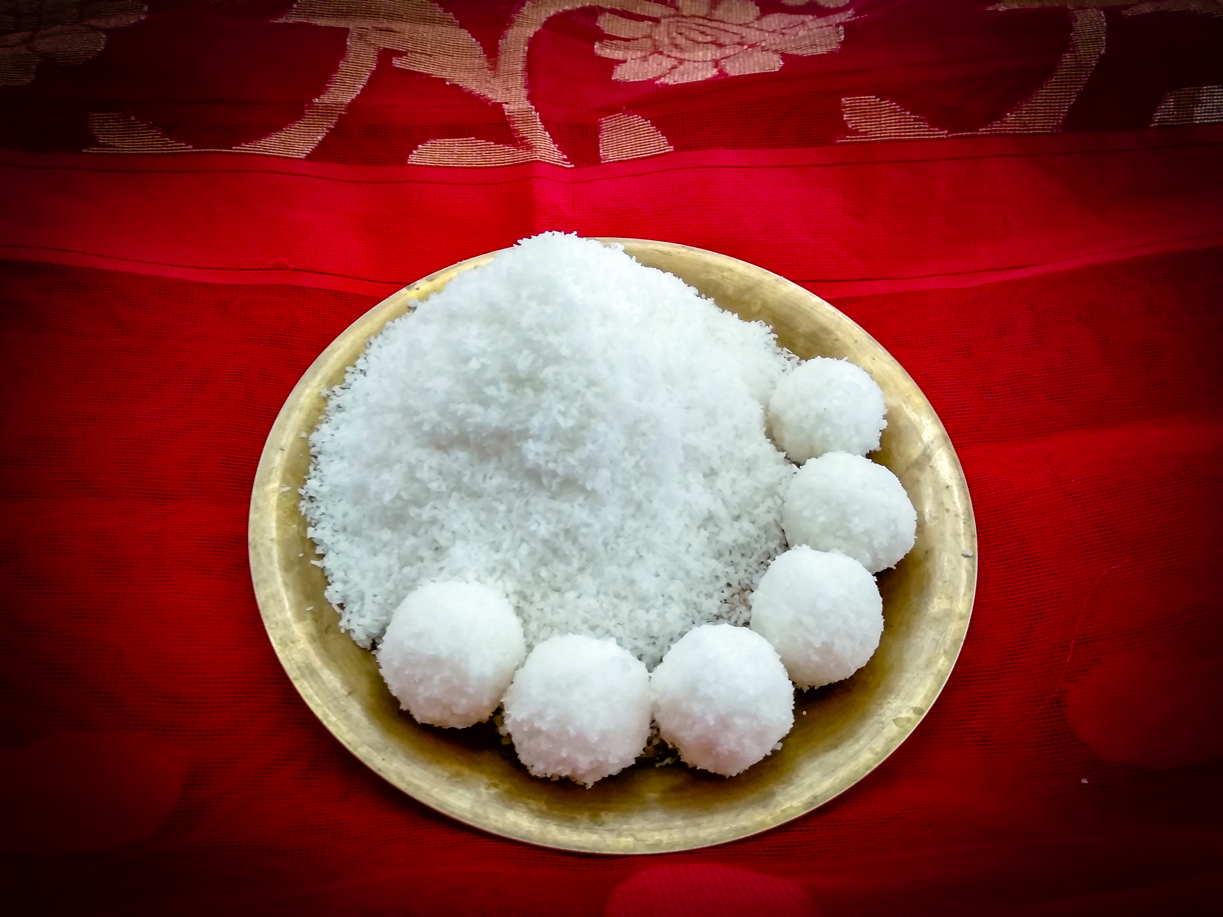 গঙ্গাজল বা পদ্মচিনি ও গঙ্গাজলি নাড়ু